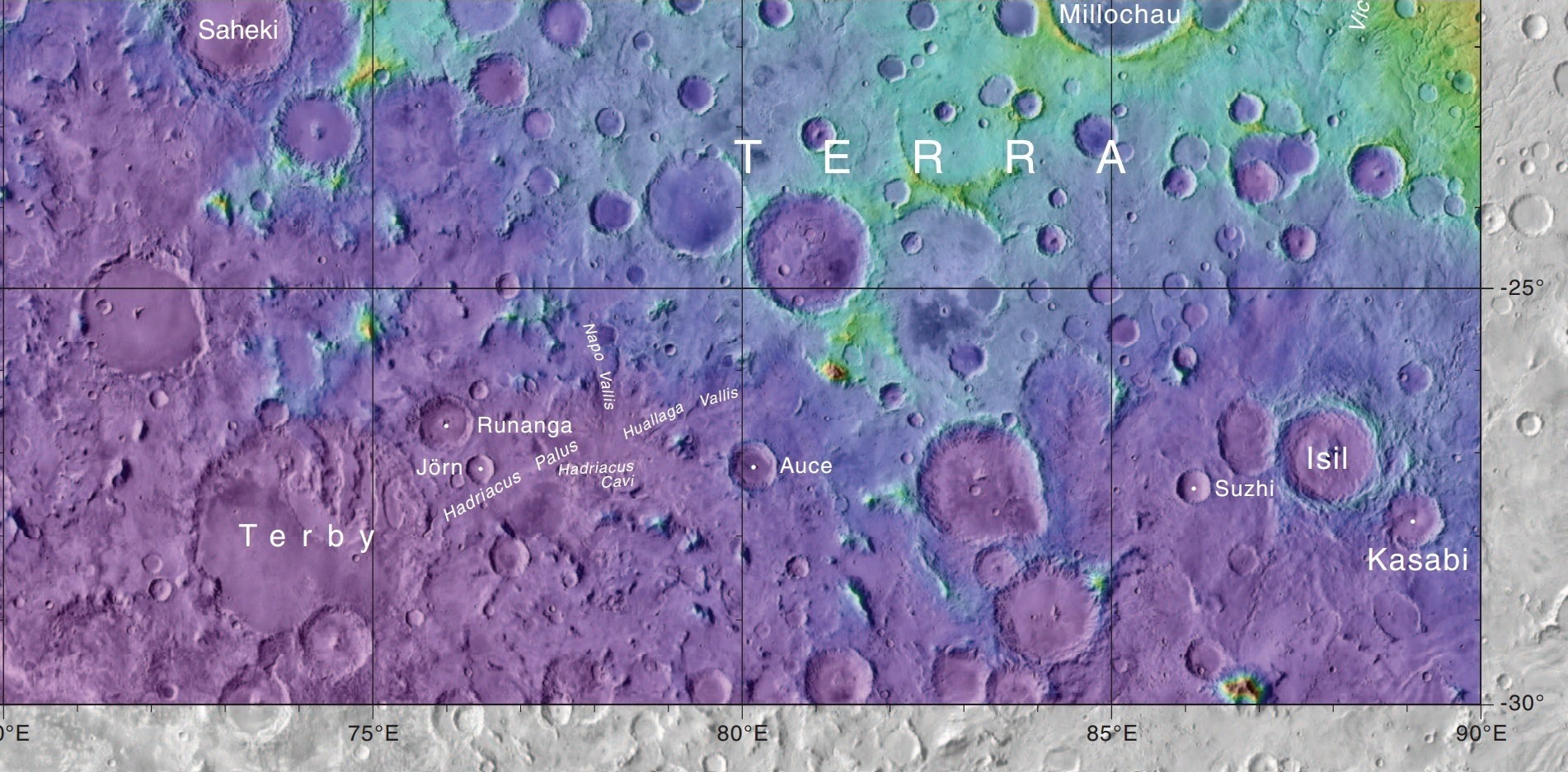 Mola map of Suzhi Crater and nearby craters